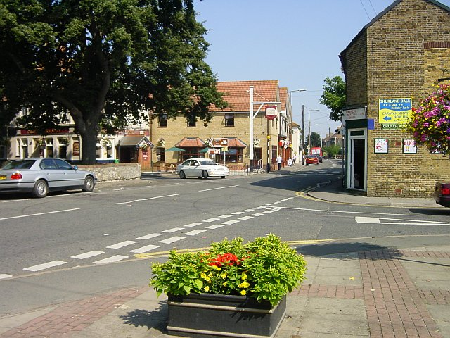 Eastchurch. Looking east along High Street from the war memorial. The turning on the left is Warden Road.